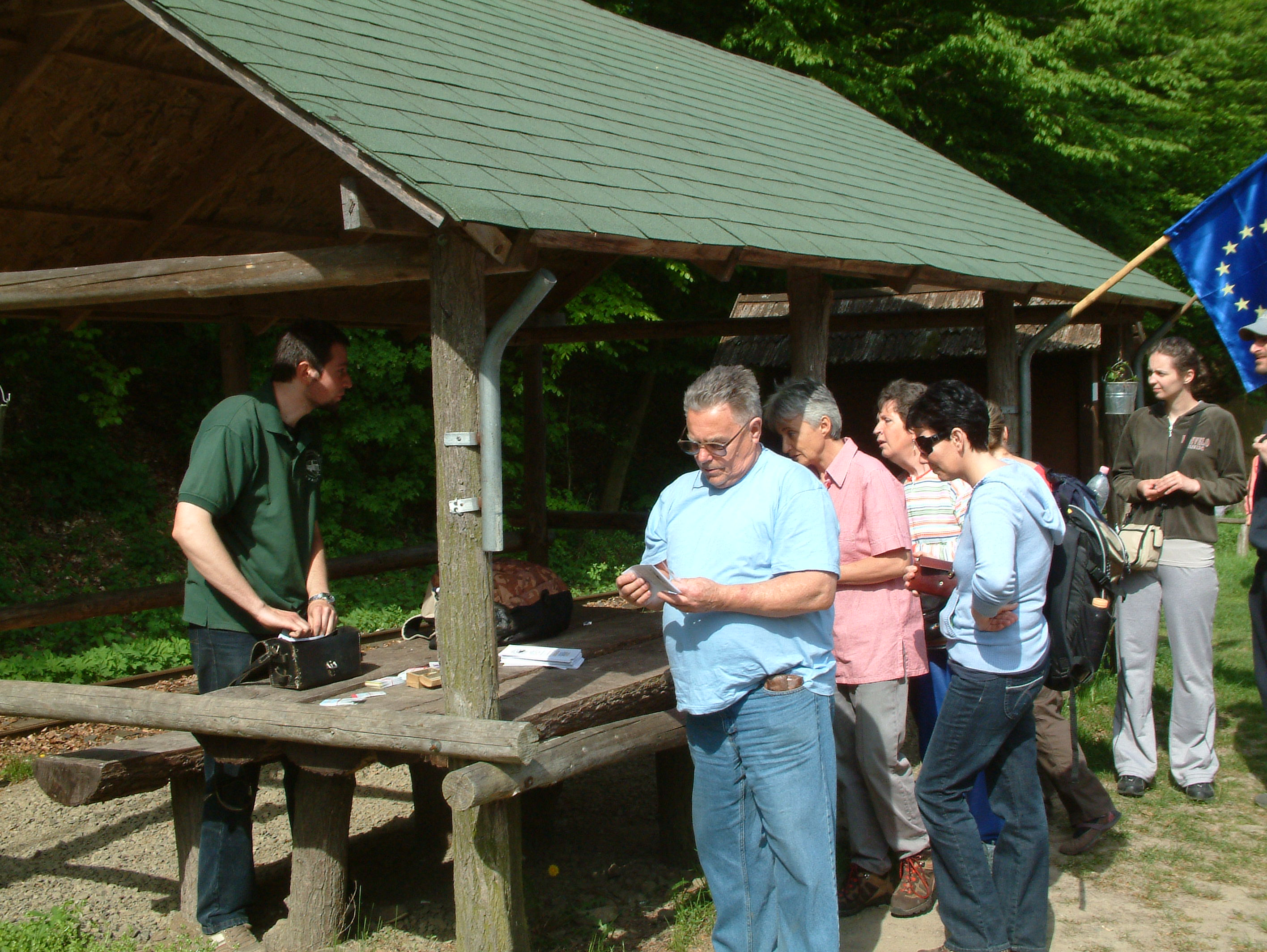 Ticket vending at Nagybörzsöny narrow gauge railway station